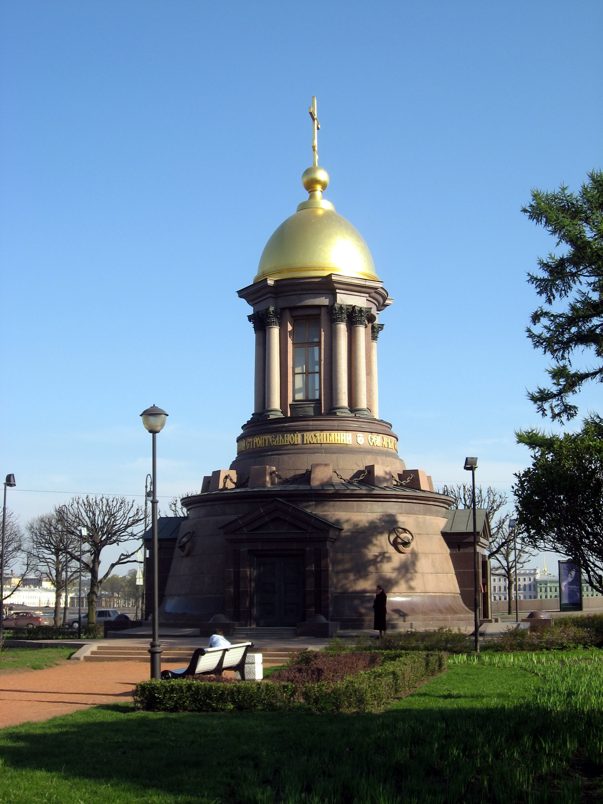 Chapel of the Holy Trinity. Builded in 2002–2003 in memory of the destruction of the Holy Trinity Cathedral. The inscription around the circumference of the chapel the Slavonic lettering: „This temple was built as a gift to the 300 anniversary of St. Petersburg productions Baltic Construction Company“.